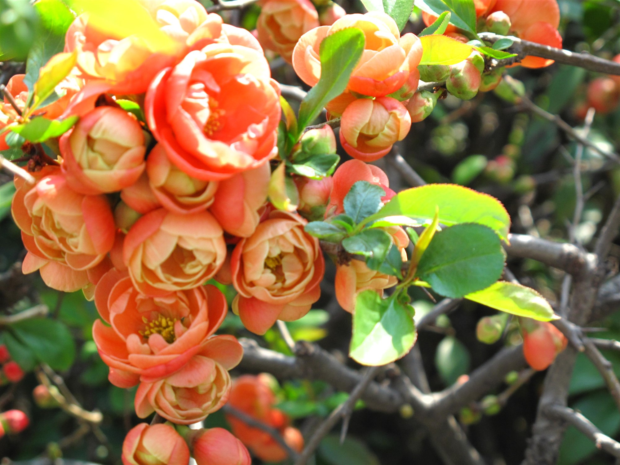 Spring roses in Duryu Park, Daegu, South Korea